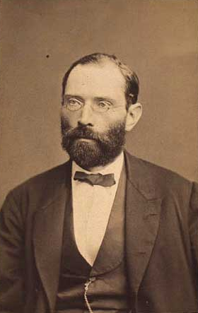 Harald Krabbe (1831–1917), Danish anatomist and zoologist.